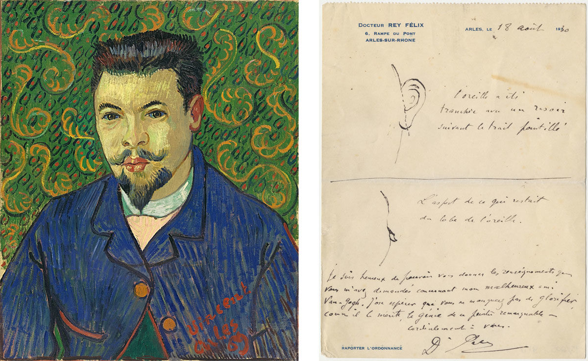 Left - Portrait of Dr Felix Rey, Vincent van Gogh, Arles, January 1889 Right - Felix Rey's note to author Irving Stone including a sketch of van Gogh's damaged ear with explanatory notes